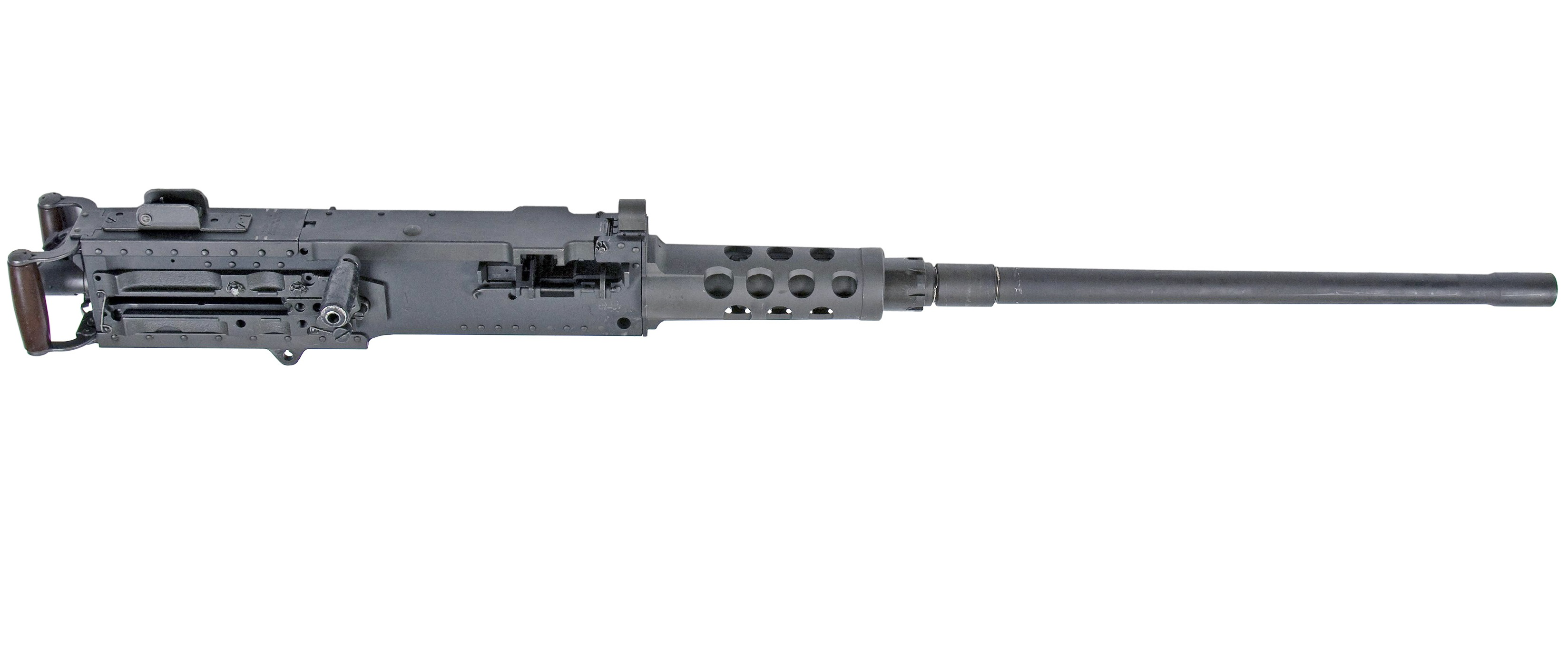 The M2 improves Soldier effectiveness and lethality with a versatile, automatic weapon for offensive and defensive operations, in both ground- and vehicle-mounted roles.